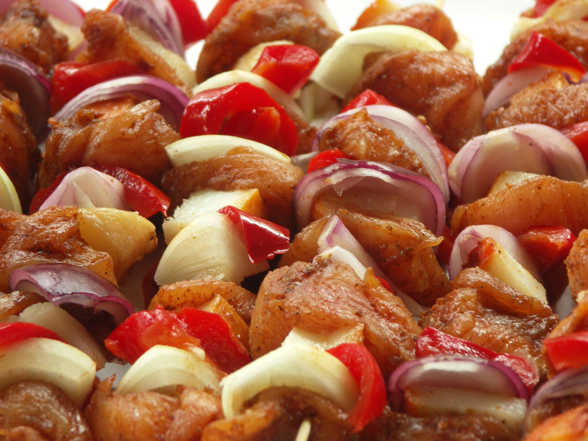 Frigărui, the way I like it, chicken + onion + red pickled pepper + salo